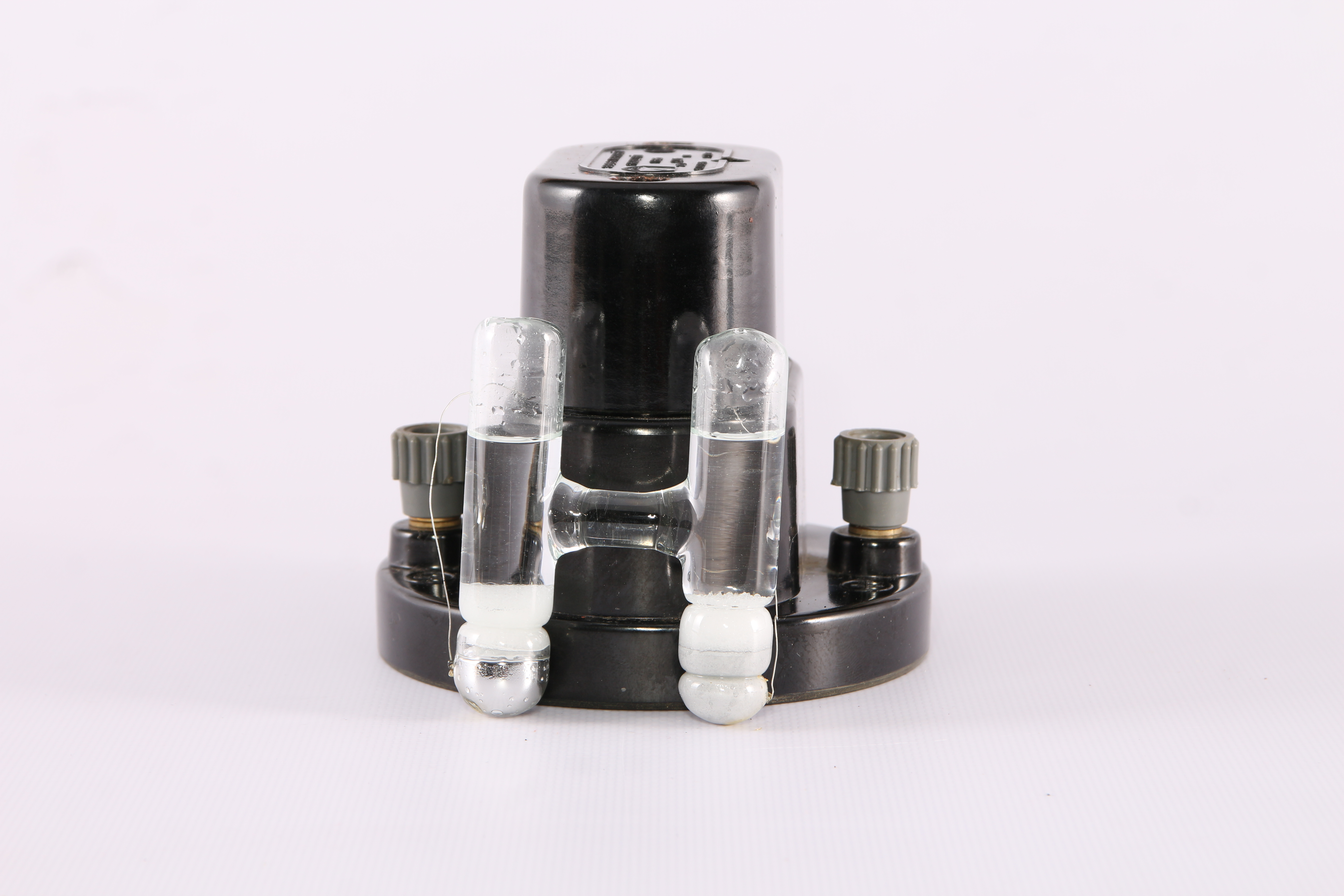 Standard Weston cell, made in USSR. Cell extracted from bakelite case. Used in laboratory for measurement.